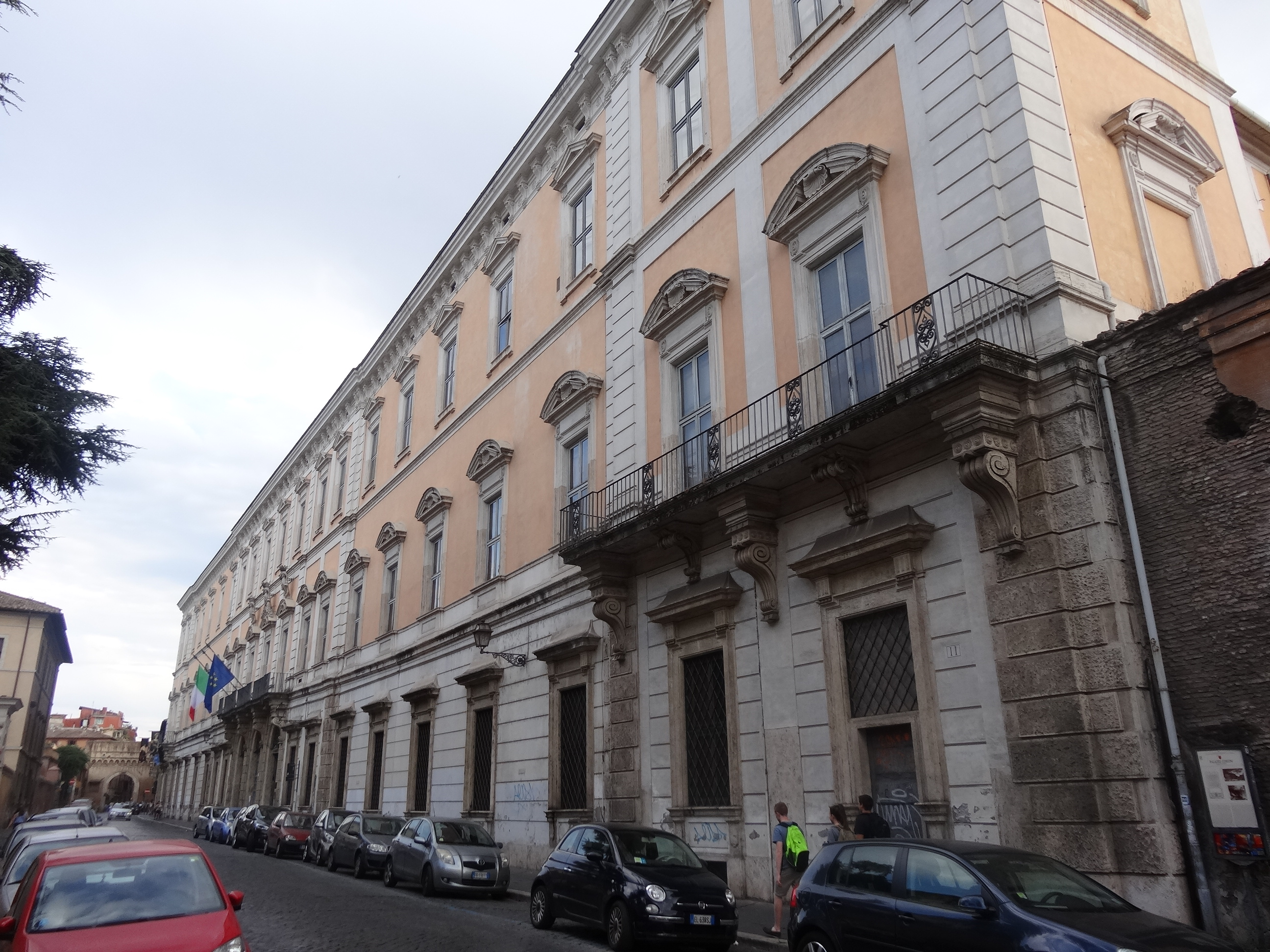 Palazzo Corsini